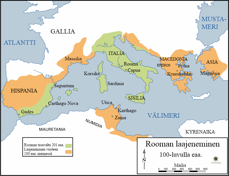 Finnish version of File:Expansion of Rome, 2nd century BC.gif